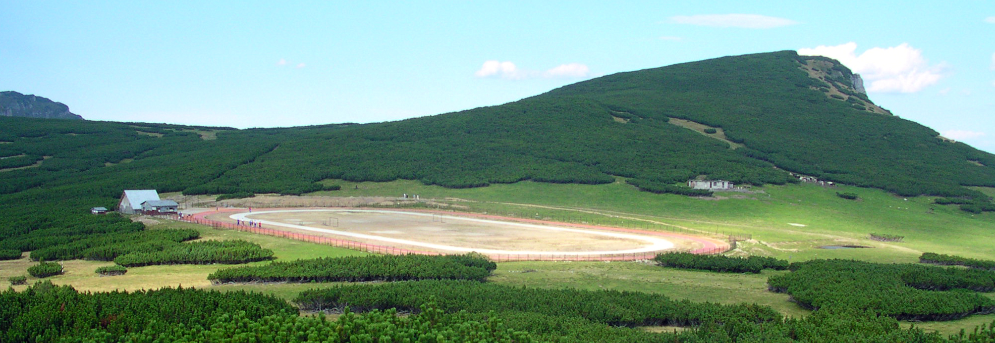 Altitude training center in Piatra Arsa/Bucegi mountains/Romania